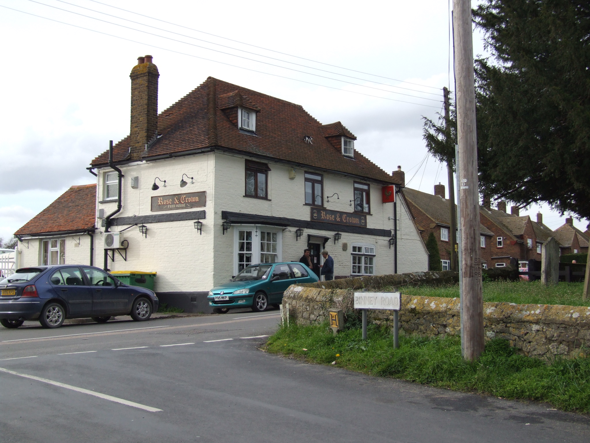 Allhallows, Kent is a village on the Hoo Peninsula. It is divided into two parts Hoo Allhallows and Allhallows on sea. This is a pub in Hoo Allhallows.